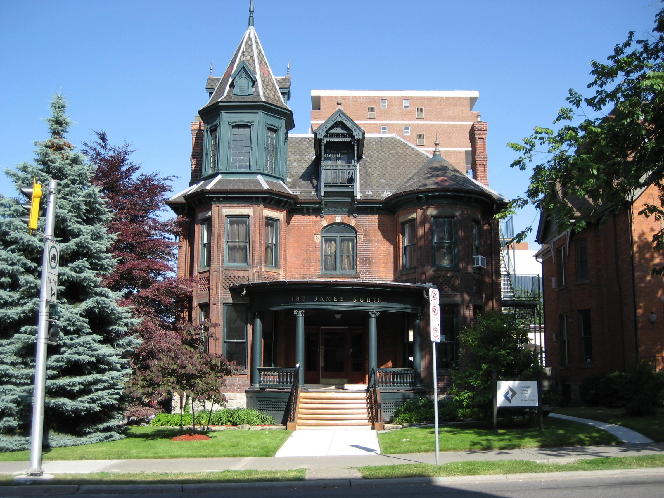 James Street South, architecture, downtown Hamilton, Ontario